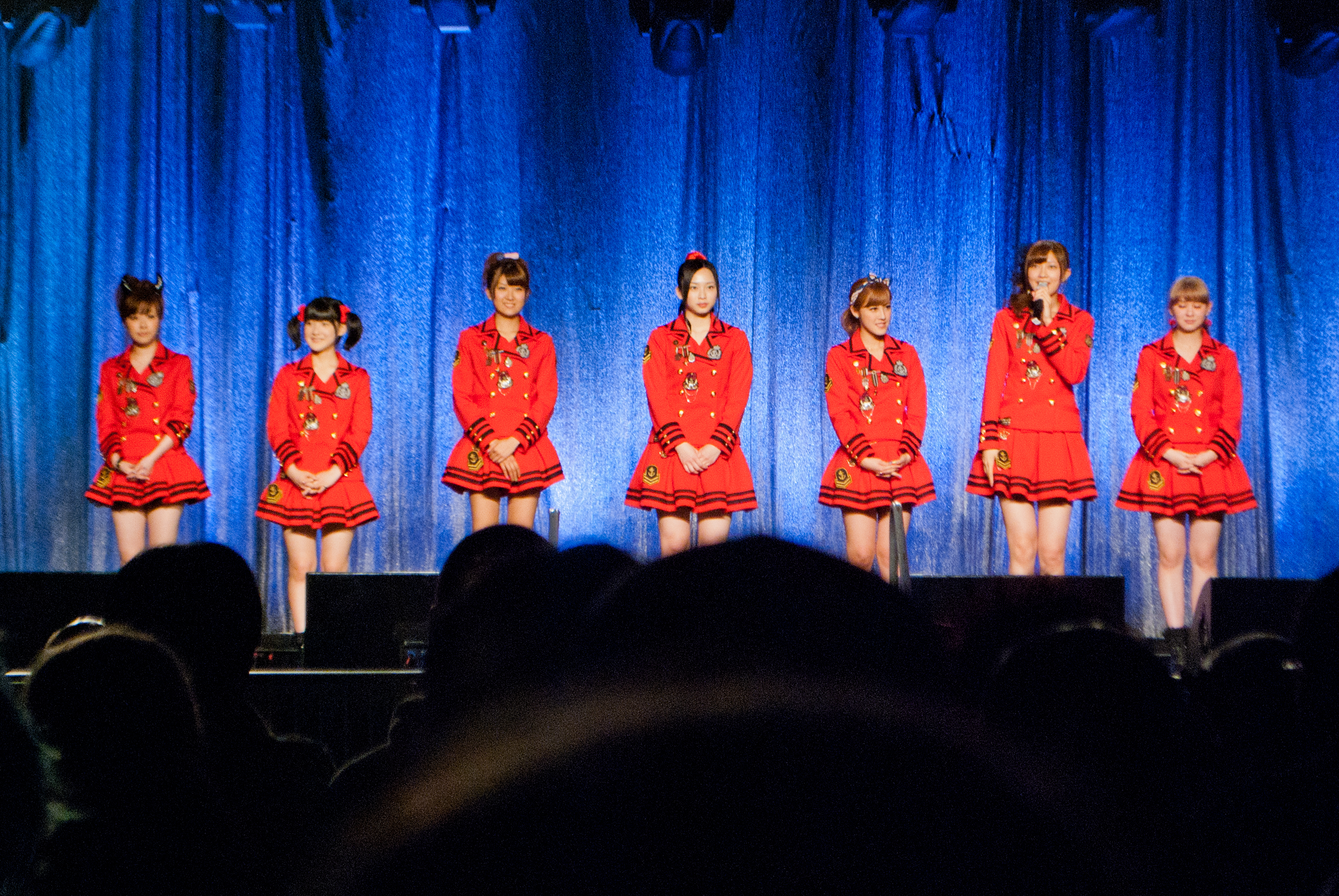 Berryz Kobo at the opening ceremony at AnimeNEXT 2012.